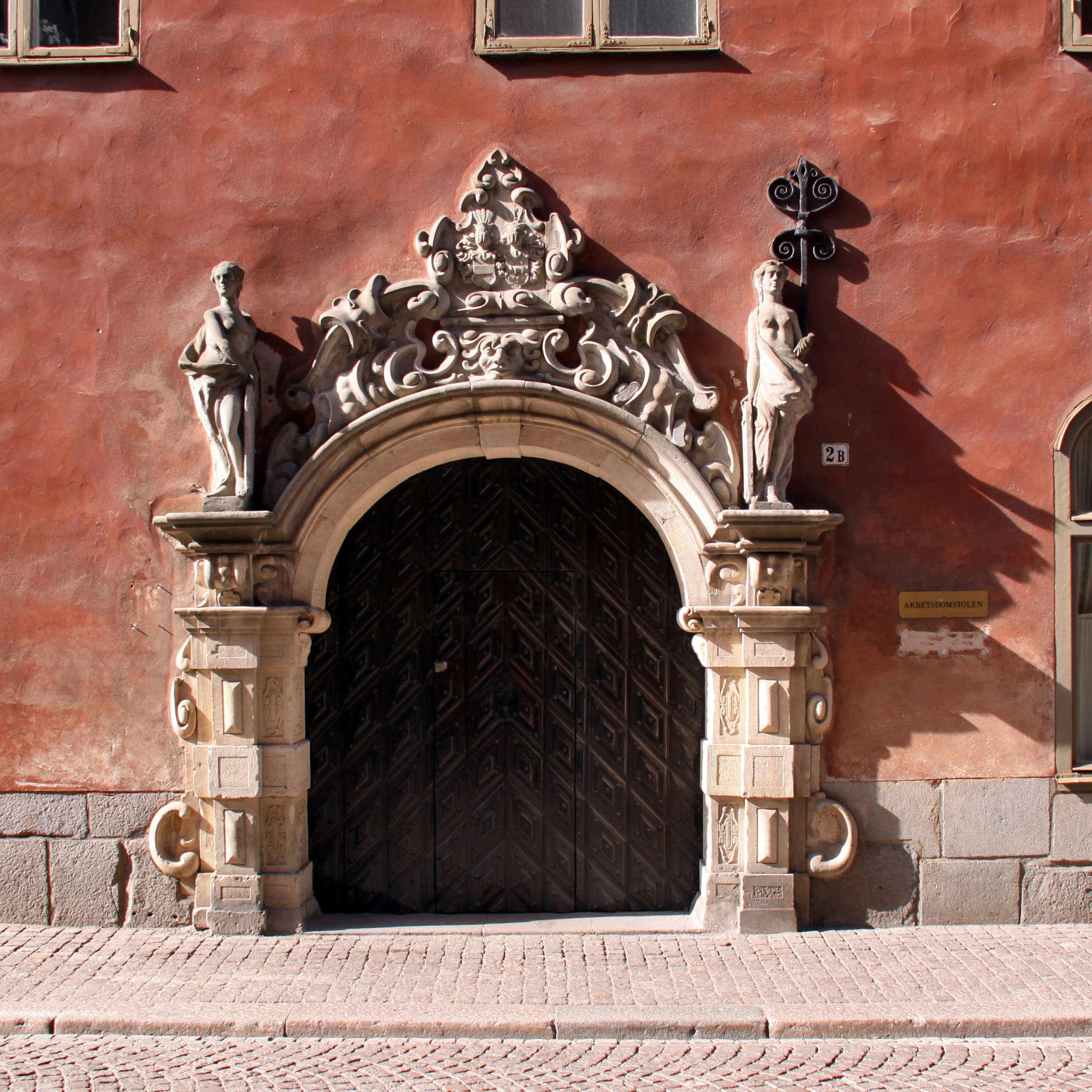 Ryning palace in Gamla stan, in Stockholm, Sweden. The main portal towards Nygatan from the 17th century.